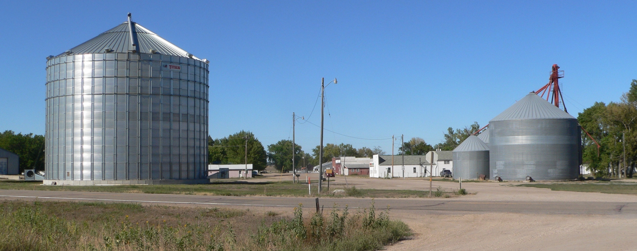 Foster, Nebraska; seen looking northeast across Nebraska Highway 13.